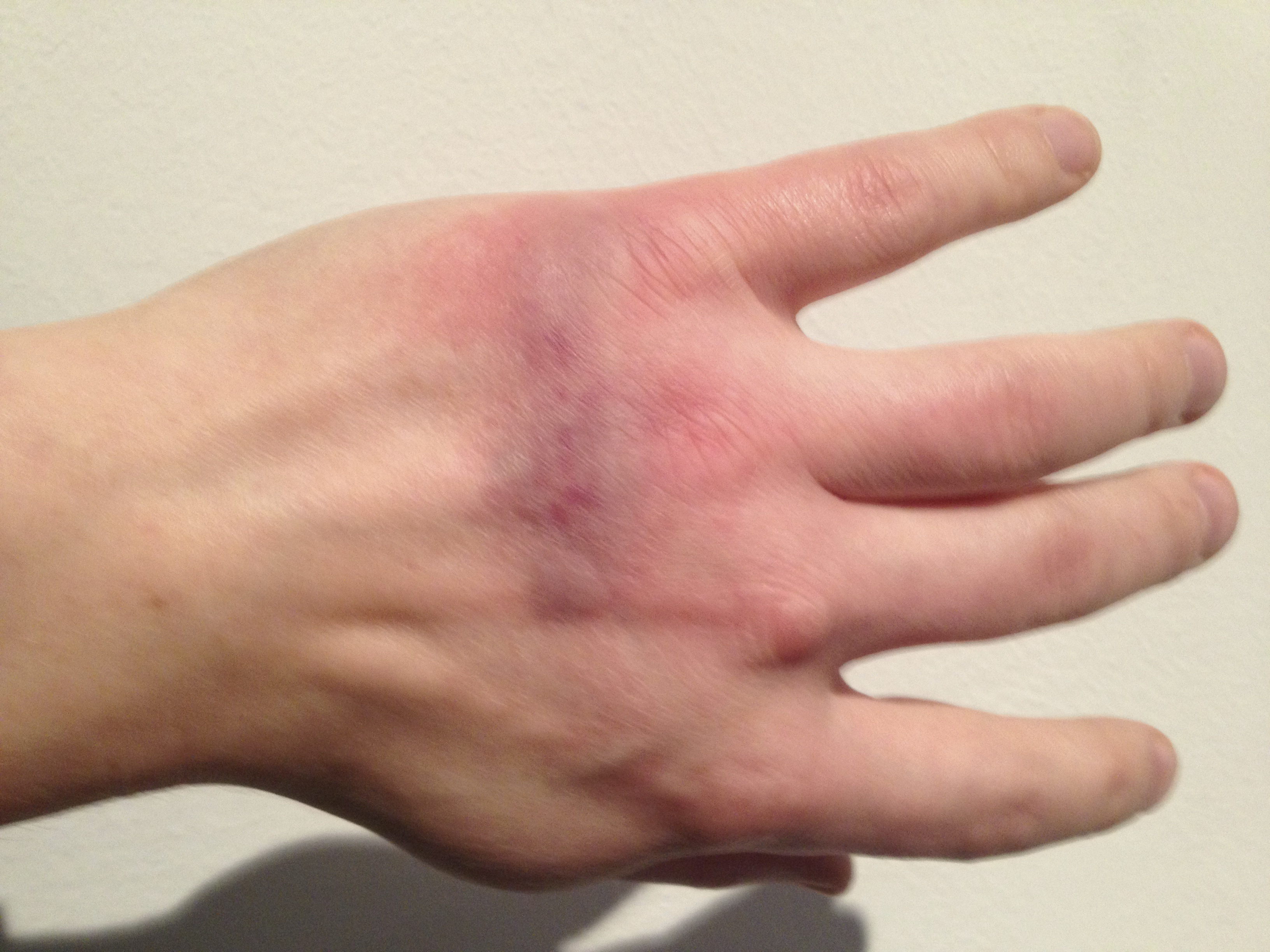 The hand of a player after playing Painstation